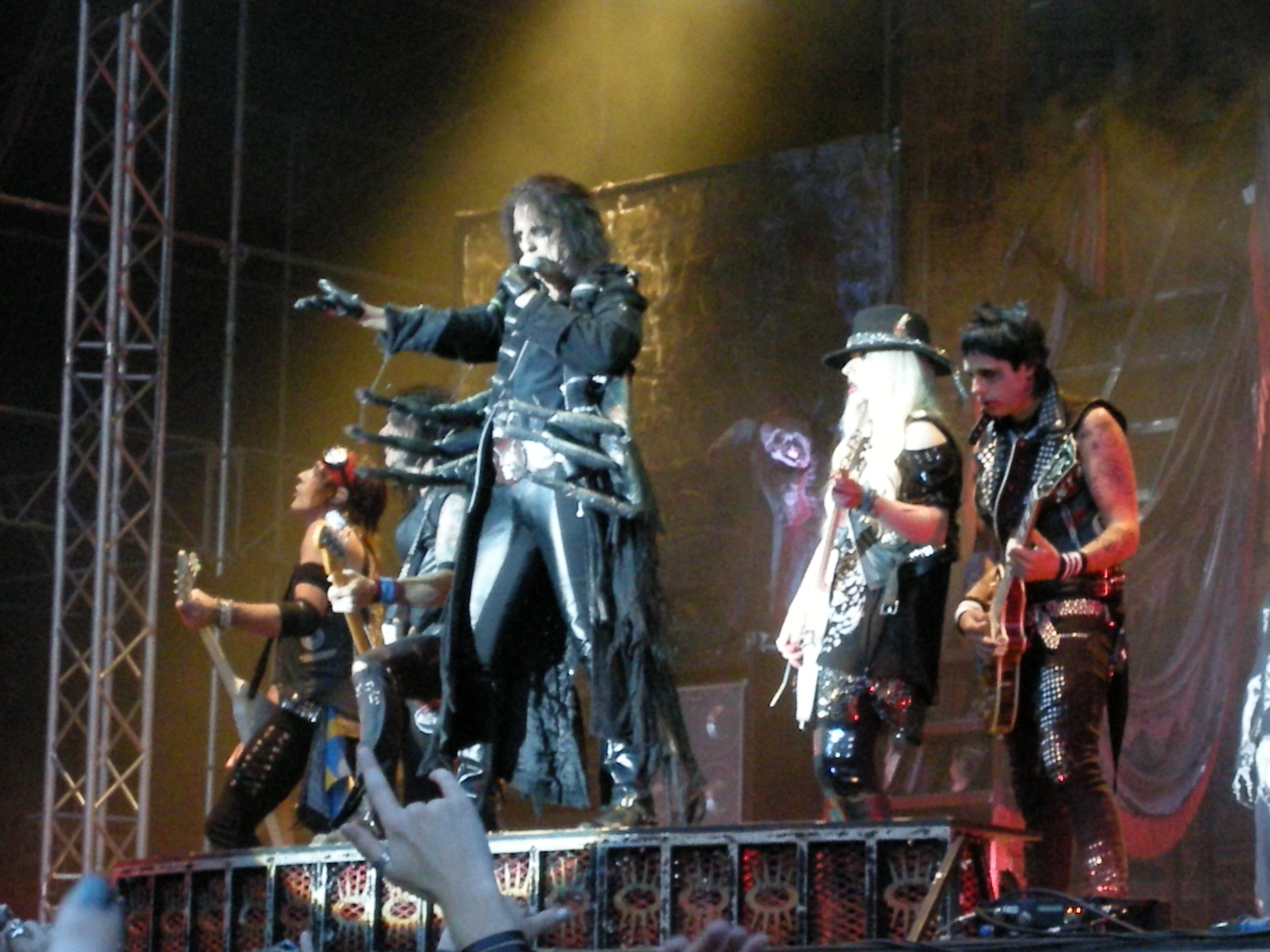 Alice Cooper band performing at Skogsröjet, Rejmyre 2012